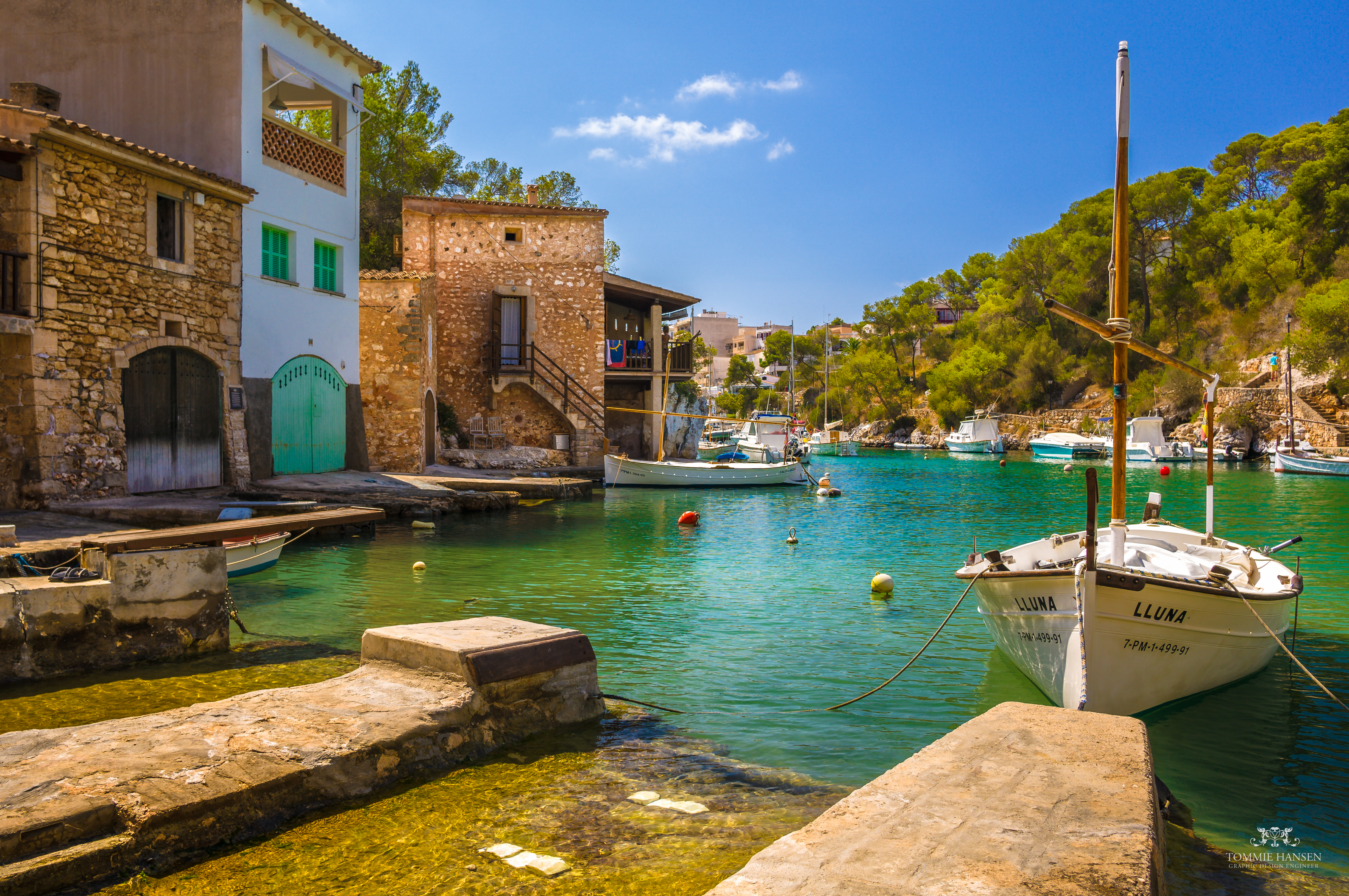 Boat and scenery in Cala Figuera, Mallorca (Spain)